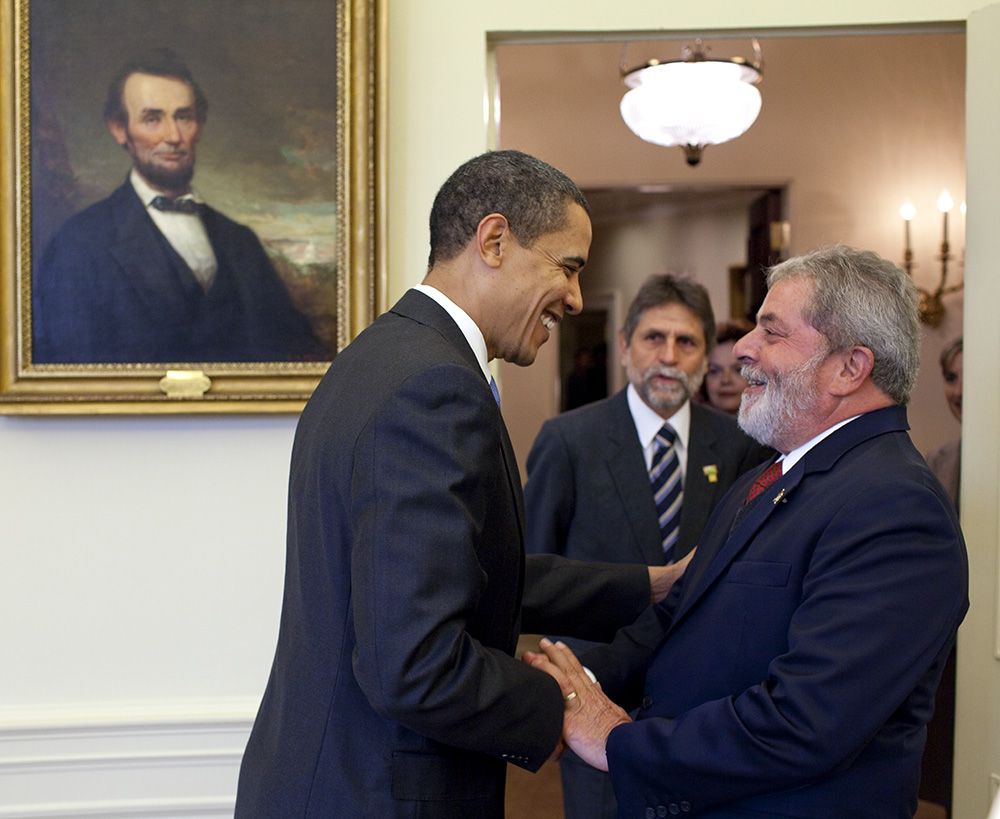 President Barack Obama greets President Lula da Silva of Brazil on Saturday, March 14, 2009 in the Oval Office. In the background are interpreter, S. Ferreira, and Lula's then-Chief of Staff and subsequent President of Brazil, Dilma Rousseff.